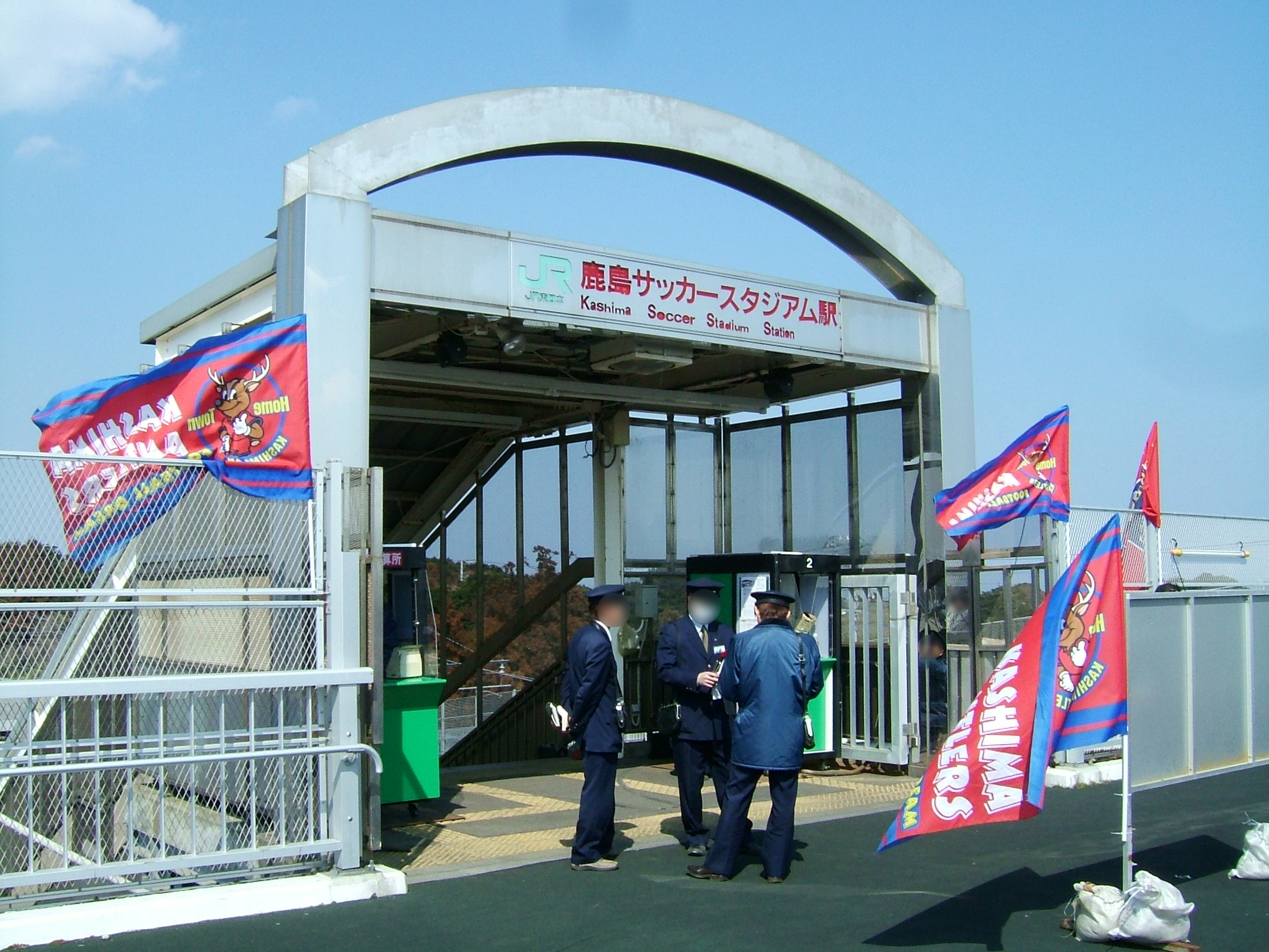 The entrance to the Kashima Soccer Stadium Station on the Kashima Line and the Ōarai-Kashima Line in Kashima city, Ibaraki prefecture, Japan